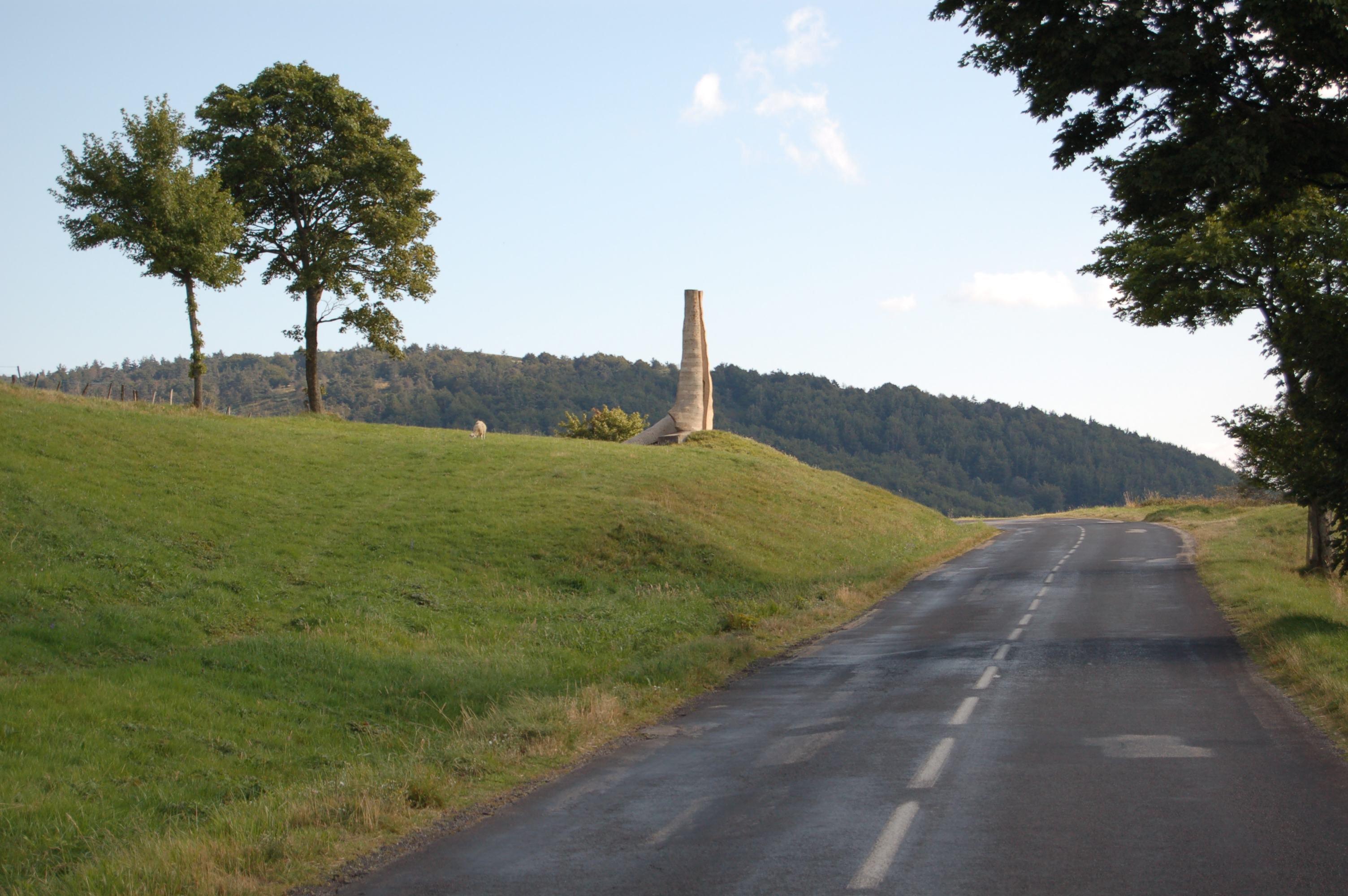 Mezhilac plan crash monument